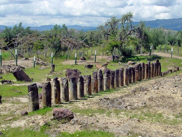 Remains of a Muisca temple, nowadays called El Infiernito, nearby Villa de Leyva, Colombia